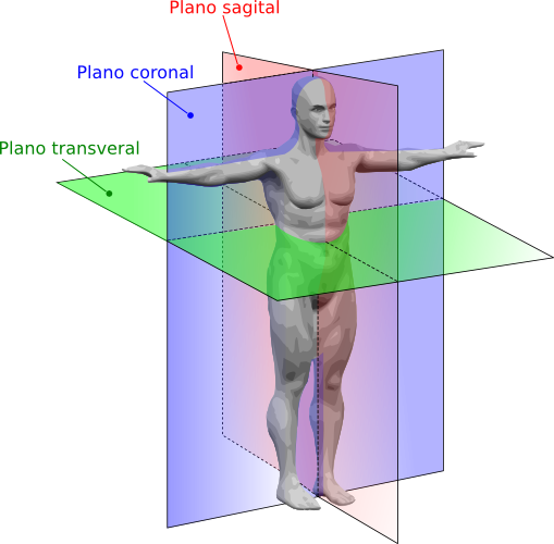 Planes of human anatomy.